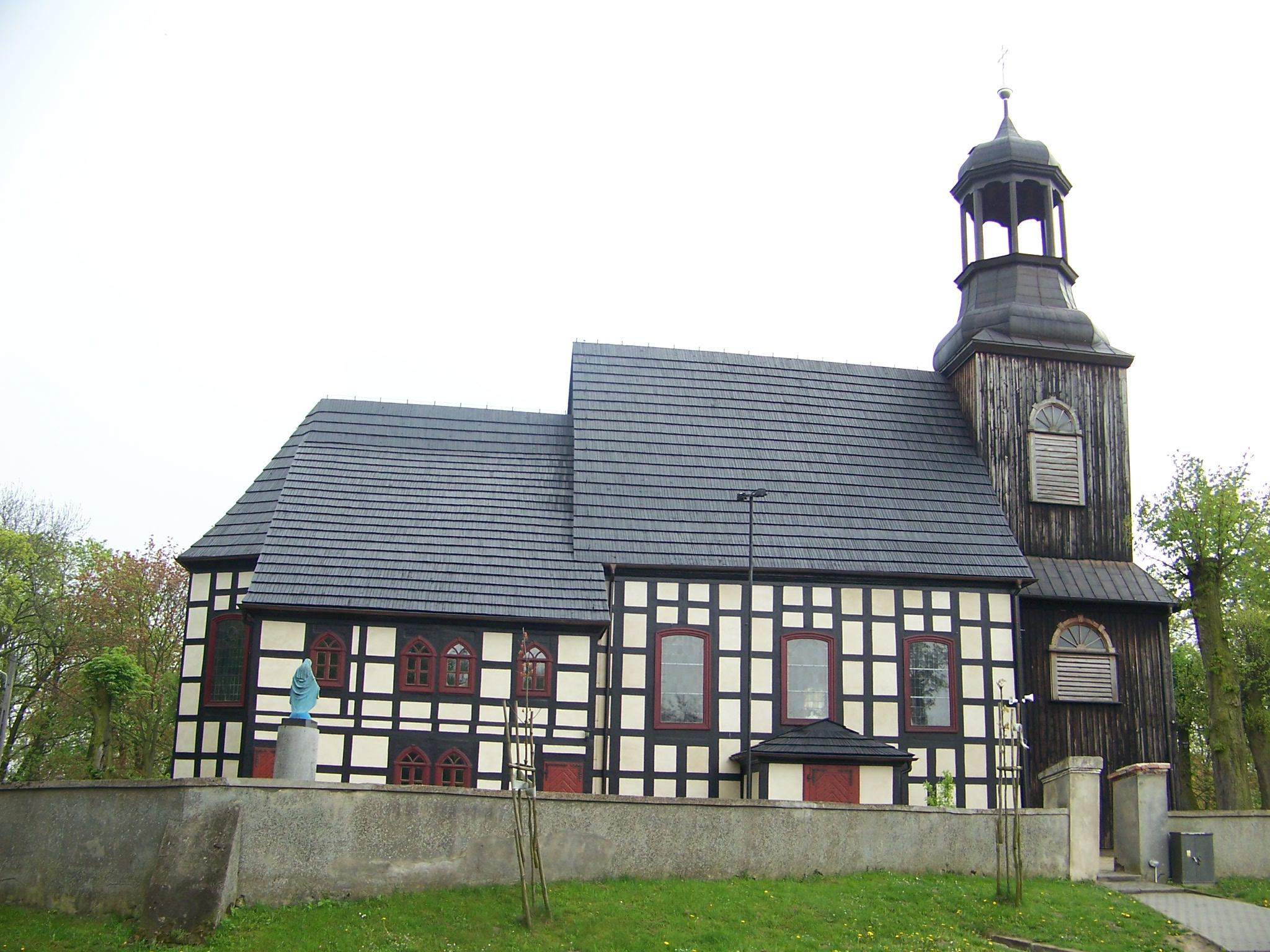 Church in Gułtowy, Poland